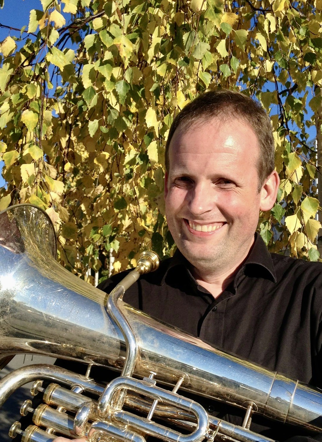 Portrett of Geir Davidsen, musician